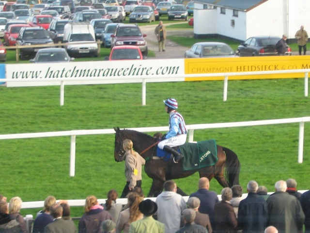 Best Mate – His Last Race We had travelled to the Devon and Exeter Racecourse specifically to see Best Mate run. Everything looked fine at this stage but Best Mate was not among the winners. In fact “Where was he?” A look back up the course and they were putting up screens about two jumps from home. A sad end to a wonderful horse.